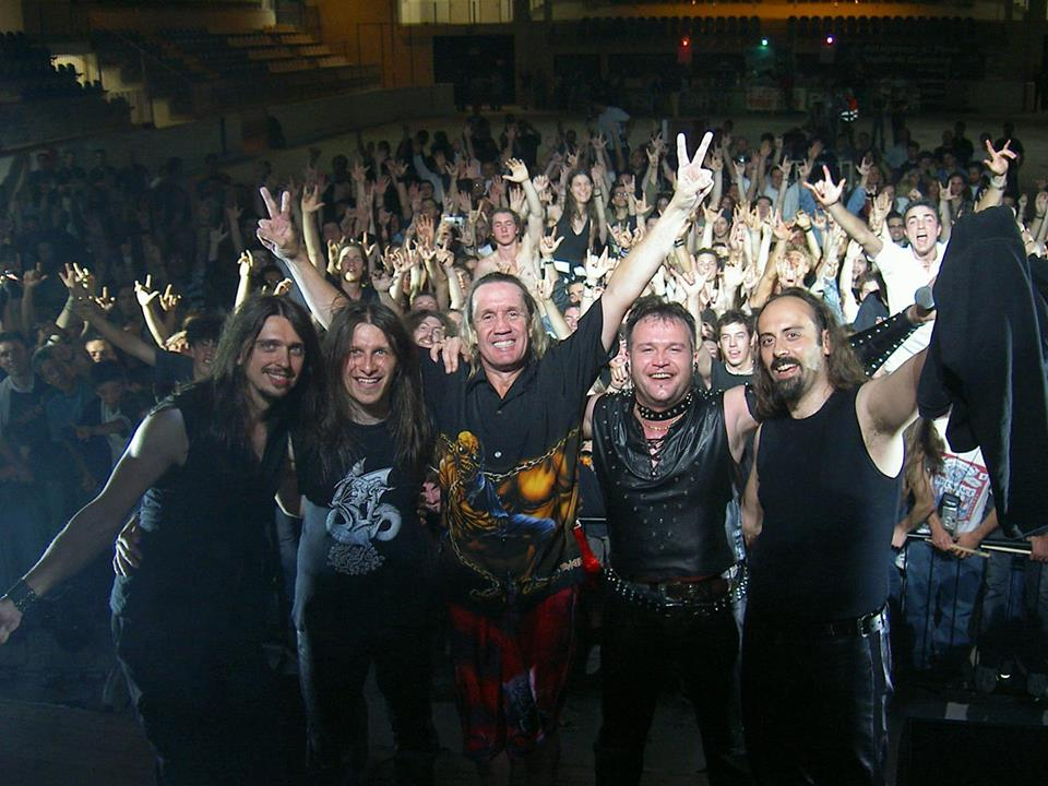 Total McBrain Damage Tour 2004